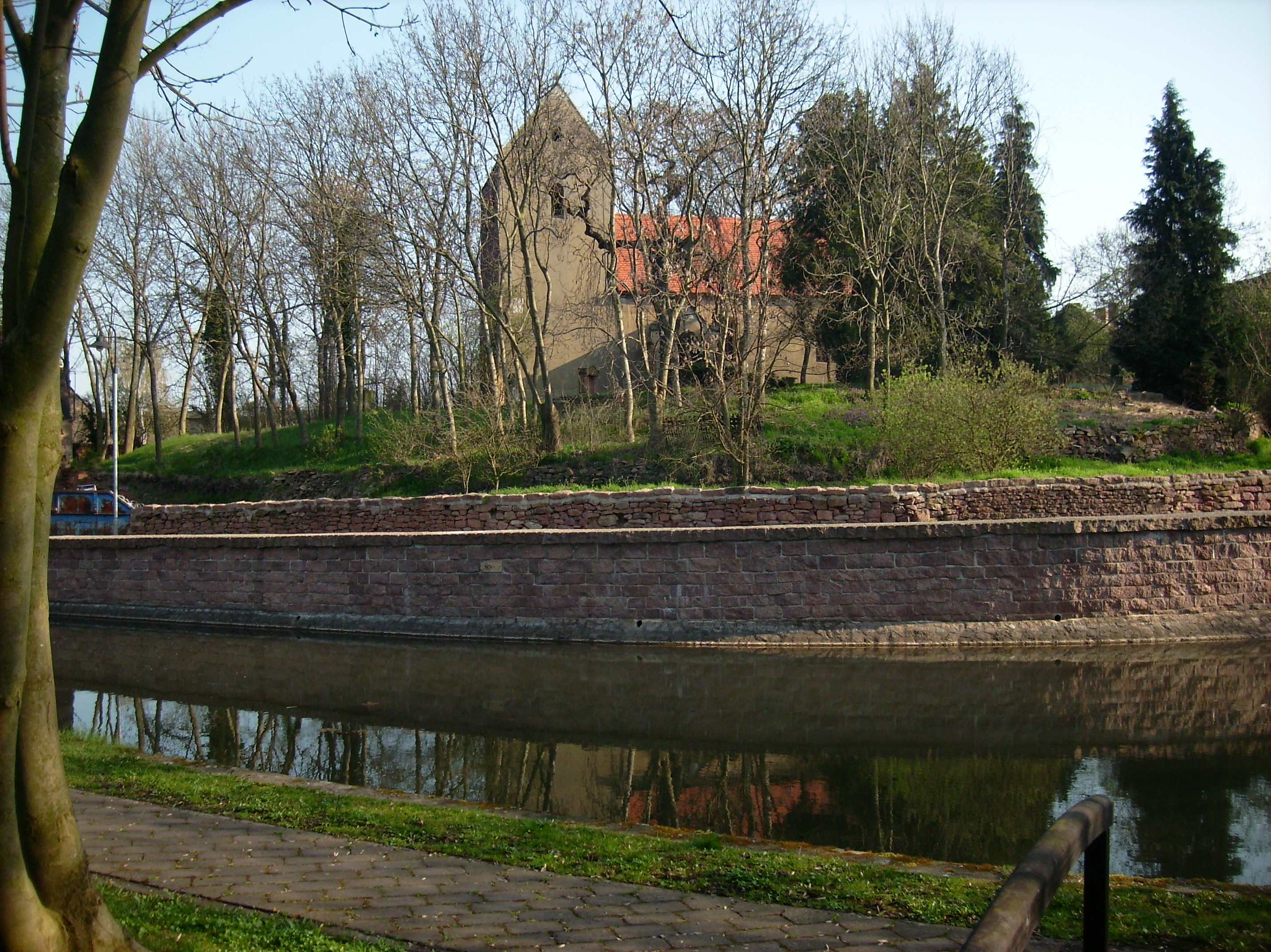 Church hill in Dalena (Wettin-Löbejün, district of Saalekreis, Saxony-Anhalt) with St. Mary Church